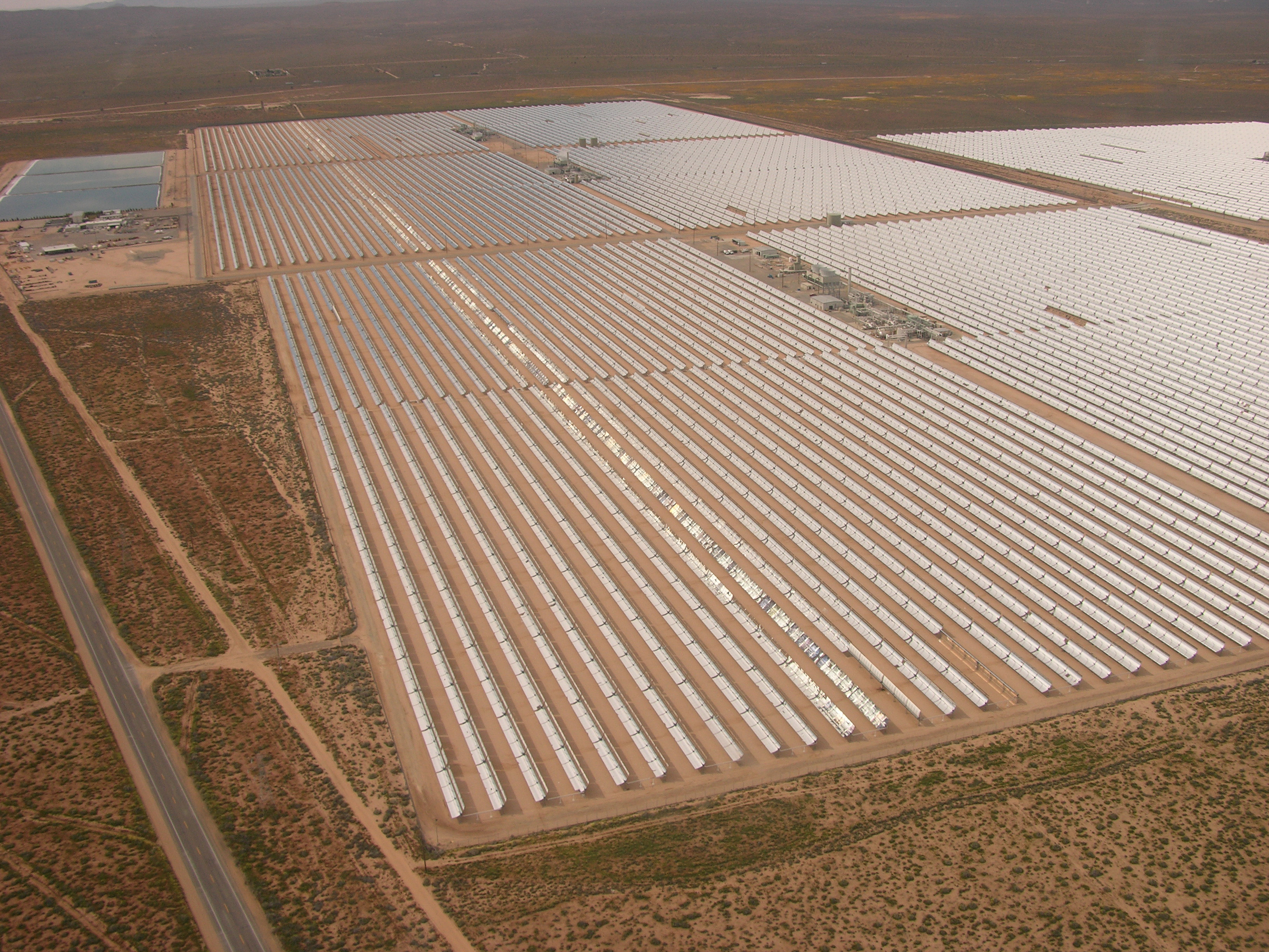 Solar Energy Generating Systems solar power plants III-VII at Mojave Desert, California